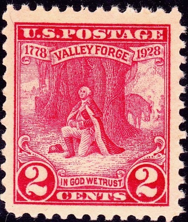 Washington_at_Prayer_Valley_Forge_1928_Issue-2c.jpg